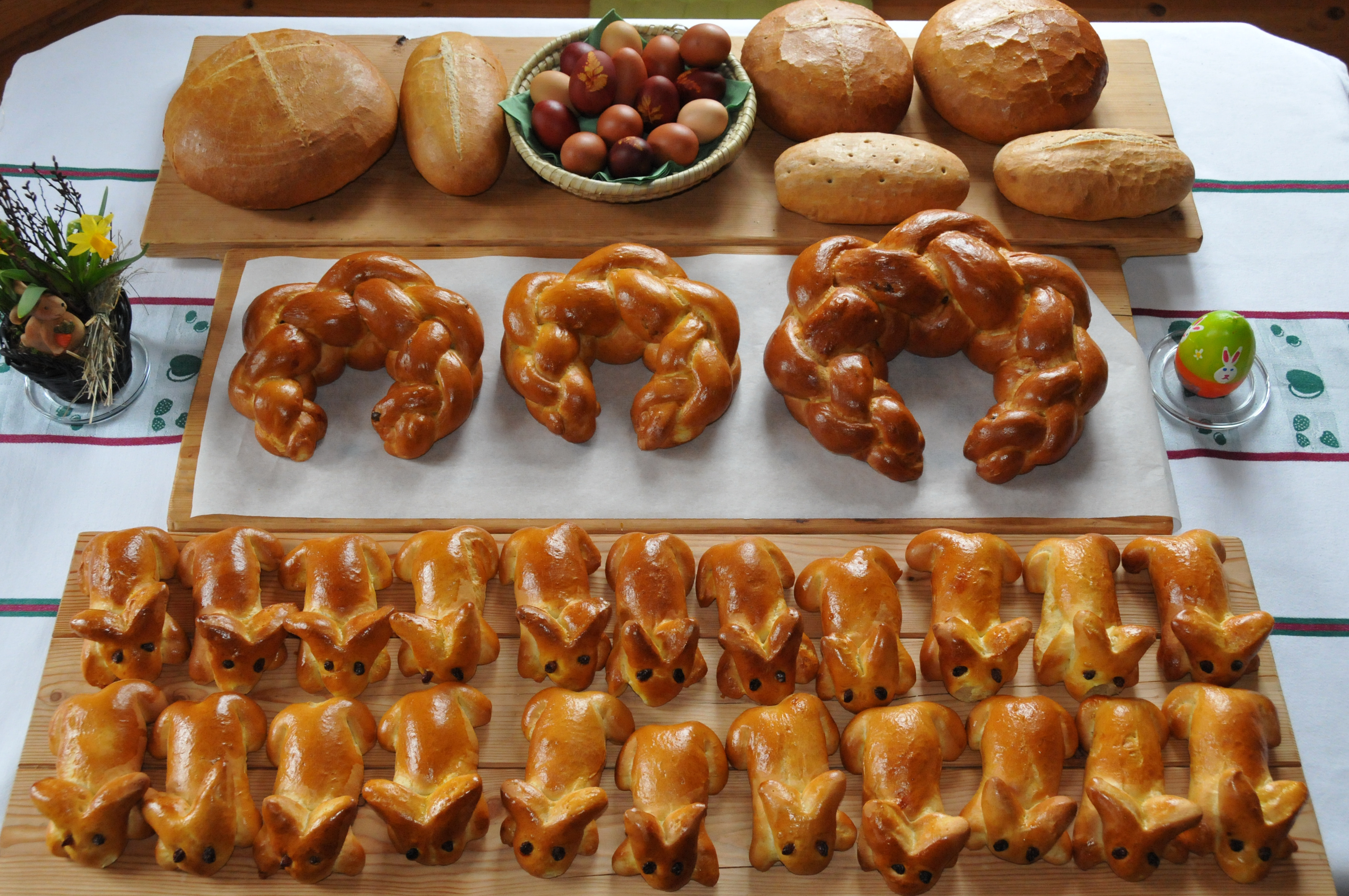 Oster Striezel Zopf Brot Easter breads Kipfel Hasen Brioche